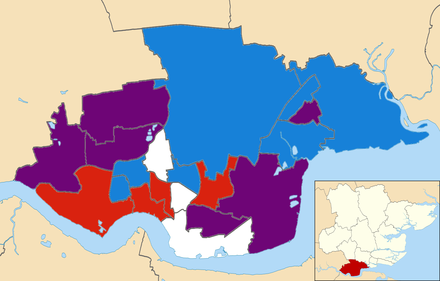 Results of the 2016 local elections in Thurrock Colours: Conservative Labour UK Independence Party No election in 2014